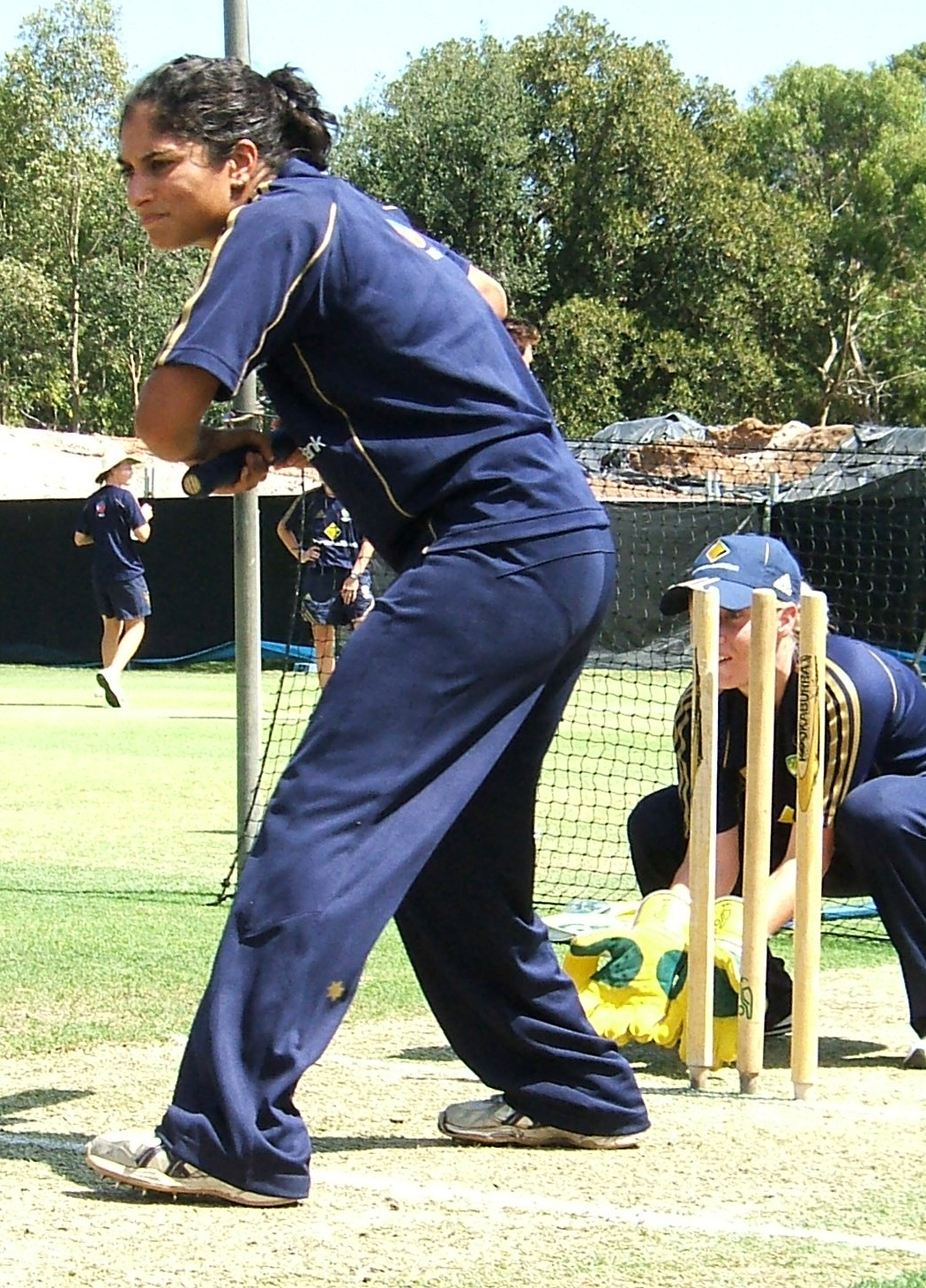 Named person engaging in named action at Adelaide Oval nets/training ground